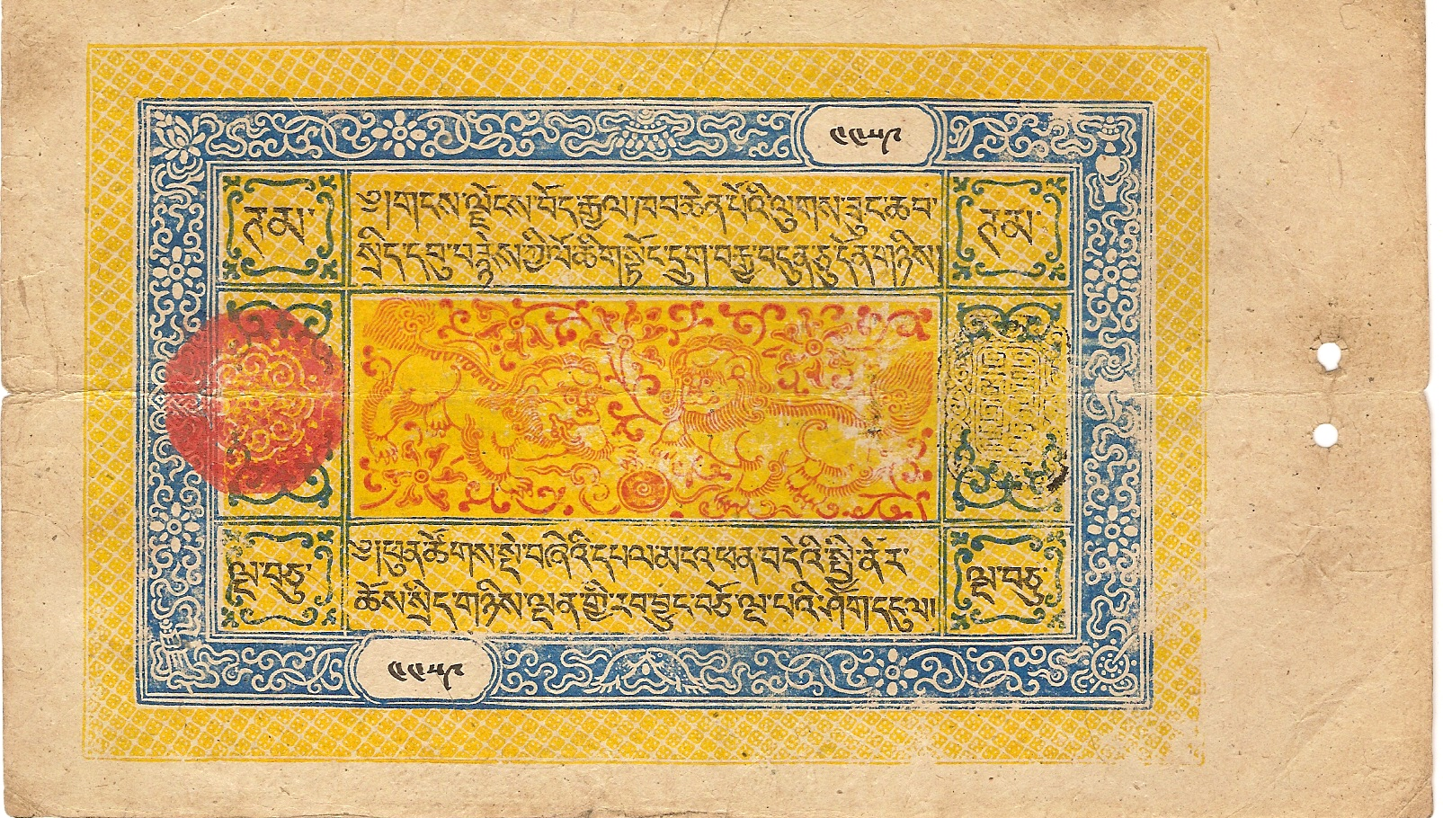 Tibetan 50 tam banknote, dated 1672 and 15th cycle (= AD 1926)